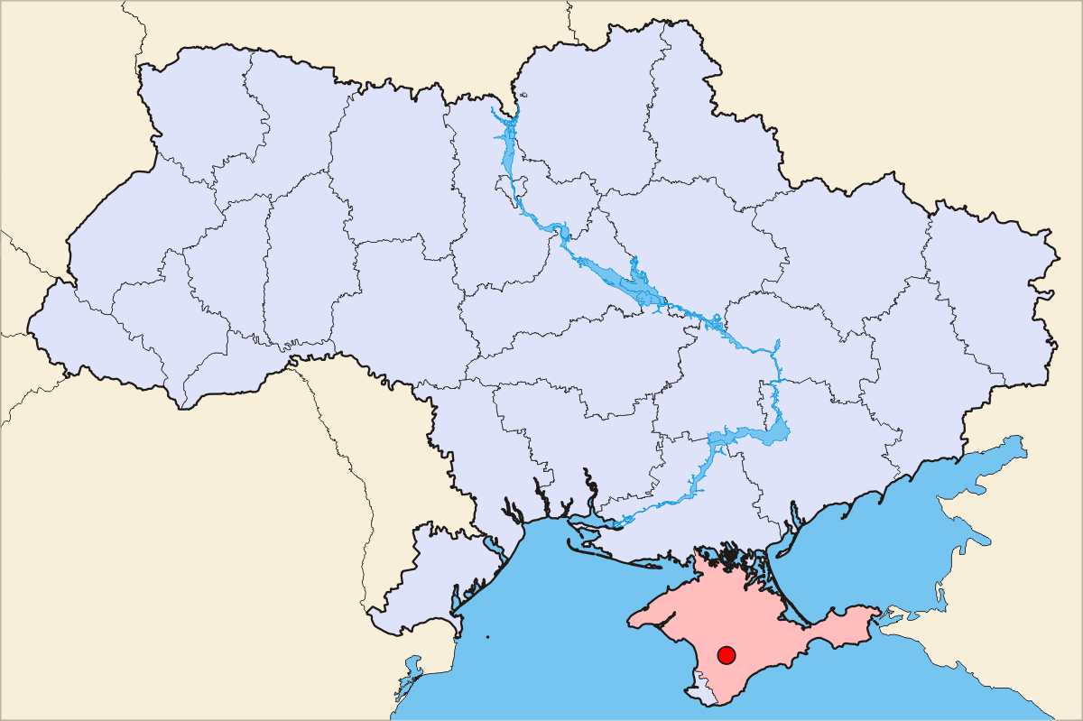 Description = Simferopol geographical position Source = own work, Skluesener Date = 15.01.2006 Author = Skluesener Credits = Colours chosen according to a map of steschke